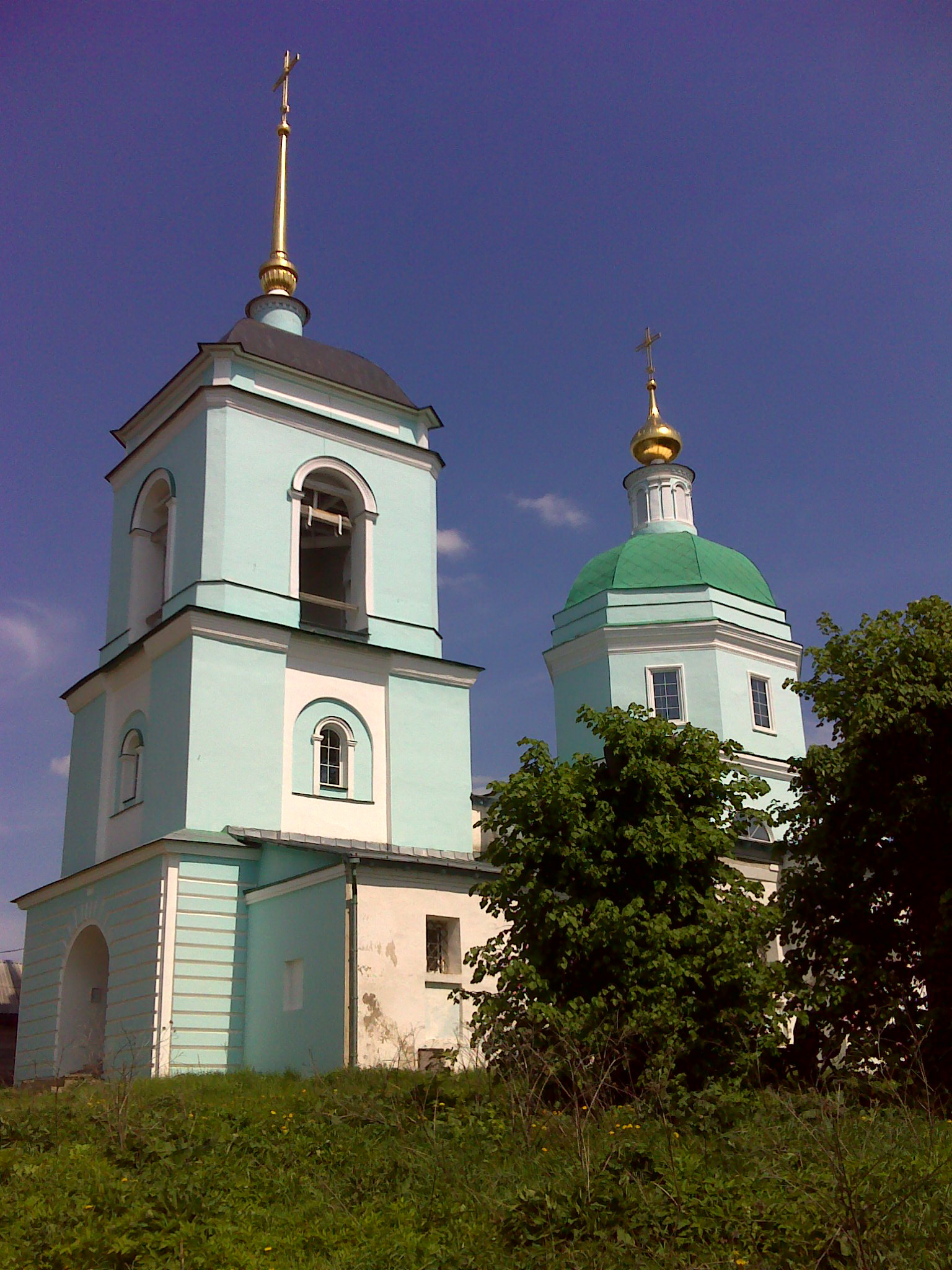 Vvedensky church, village Olgovo, Dmitrov district, Moscow region.